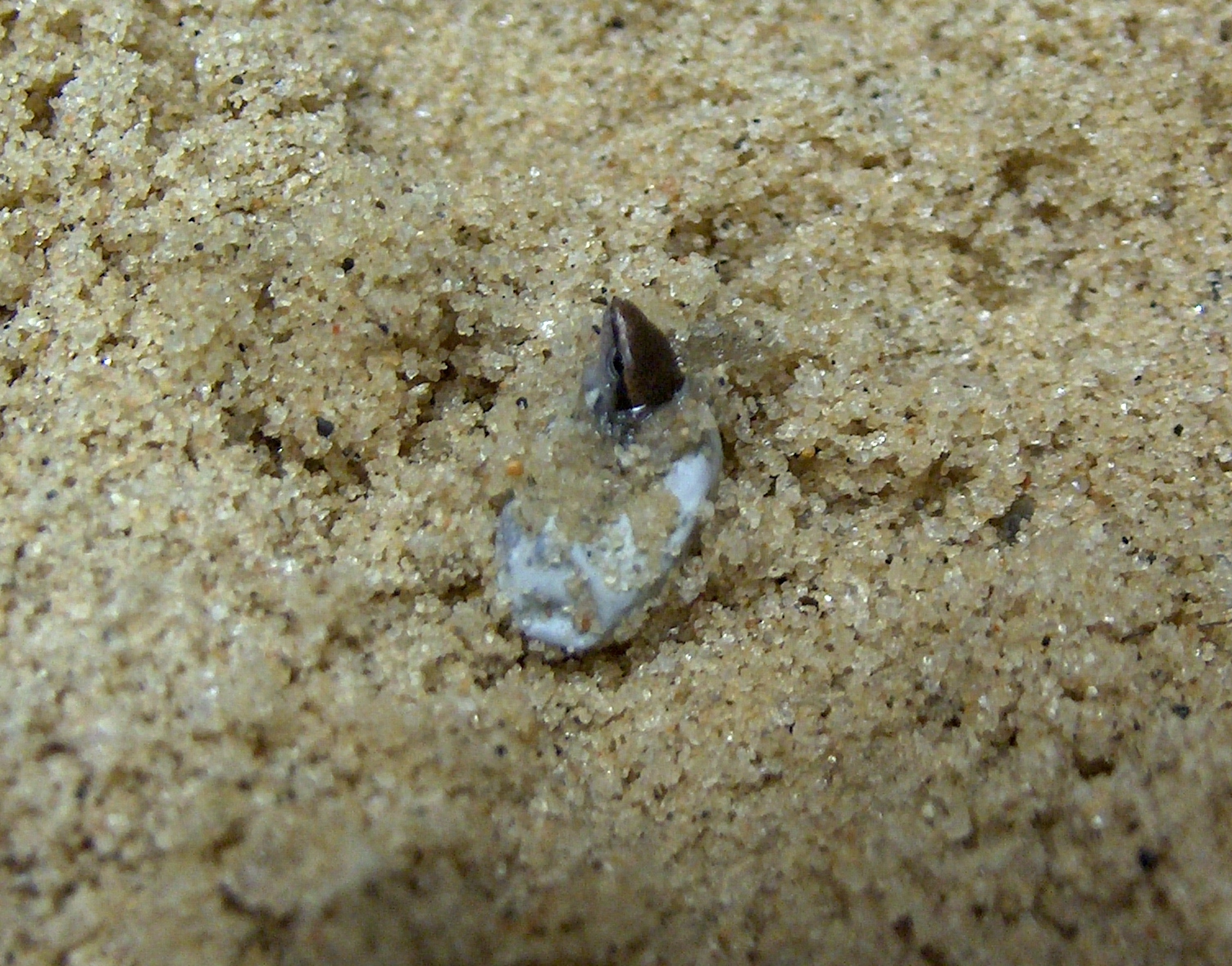 Ground Skink (Scincella lateralis) hatching from an egg.